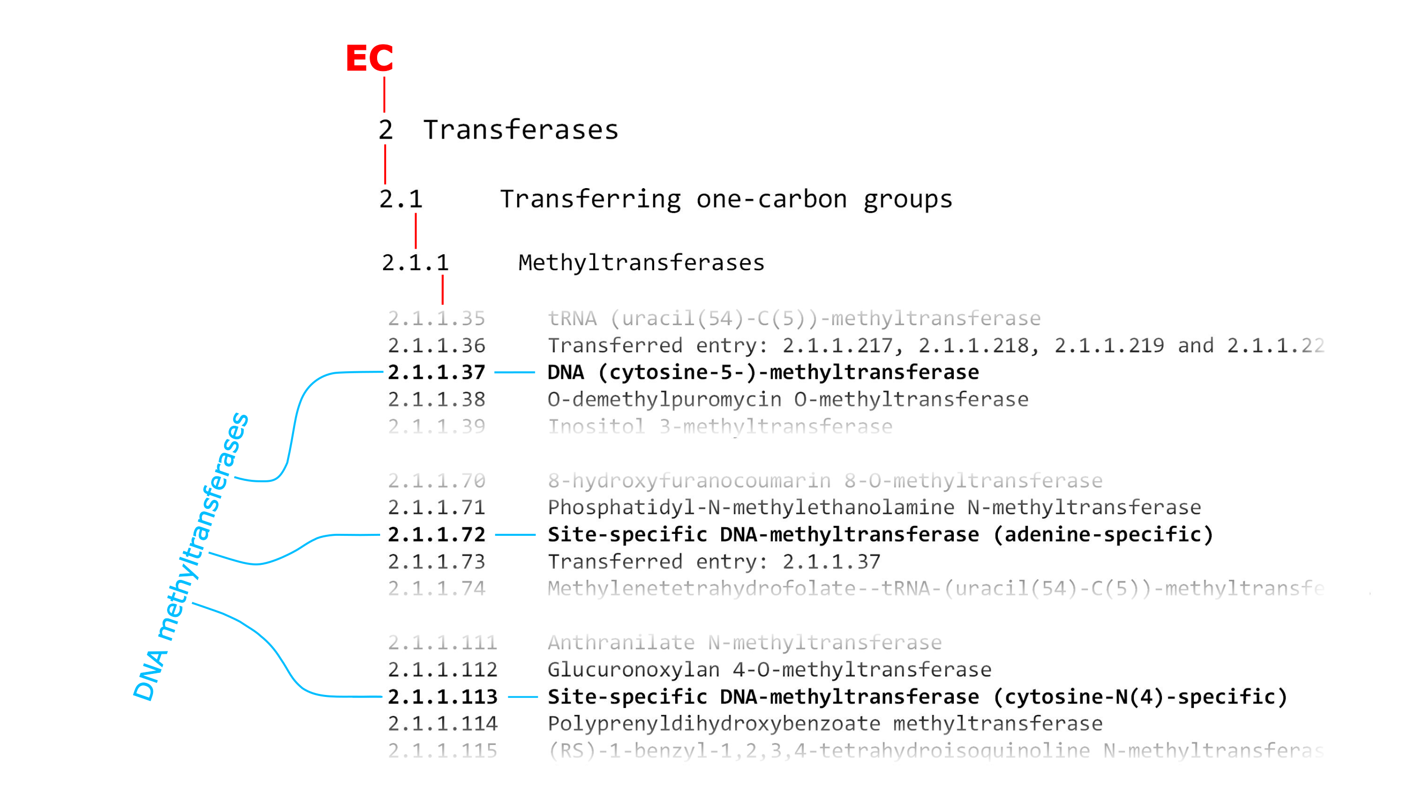 The DNA methyltransferases and the EC classification system. Within the EC Number System (EC: Enzyme Commission), the DNA methyltransferases are not a group. The DNA methyltransferases (DNA methyltransferases) have three ENZYME entries within a longer list of methyltransferases (ENZYME class: 2.1.1). The methyltransferases belong to the enzymes that transfer groups with one carbon atom (transferring one-carbon groups, ENZYME class: 2.1), which in turn belong to the transferases (transferases, ENZYME class: 2). The entries for DNA methylferases are "DNA (cytosine-5-)-methyltransferase" (ENZYME entry: EC 2.1.1.37), "Site-specific DNA methyltransferase (adenine-specific)" (ENZYME entry: EC 2.1.1.72) and "Site-specific DNA methyltransferase (cytosine-N(4)-specific)" (ENZYME entry: EC 2.1.1.113). The indications with the word "ENZYME" were found on the ExPASy SIB Bioinformatics Resource Portal (retrieval 2019-10-16, eg